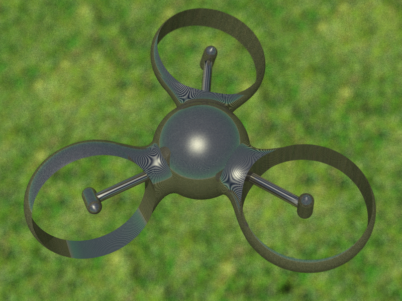 TriRotor MAV Project by Supaero students